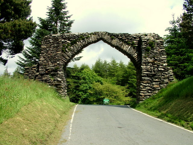 Built in 1810 by Thomas Johnes, Hafod to commemorate the Jubilee of George III, 'The Arch' is on the road from Cwmystwyth and Devil's Bridge.